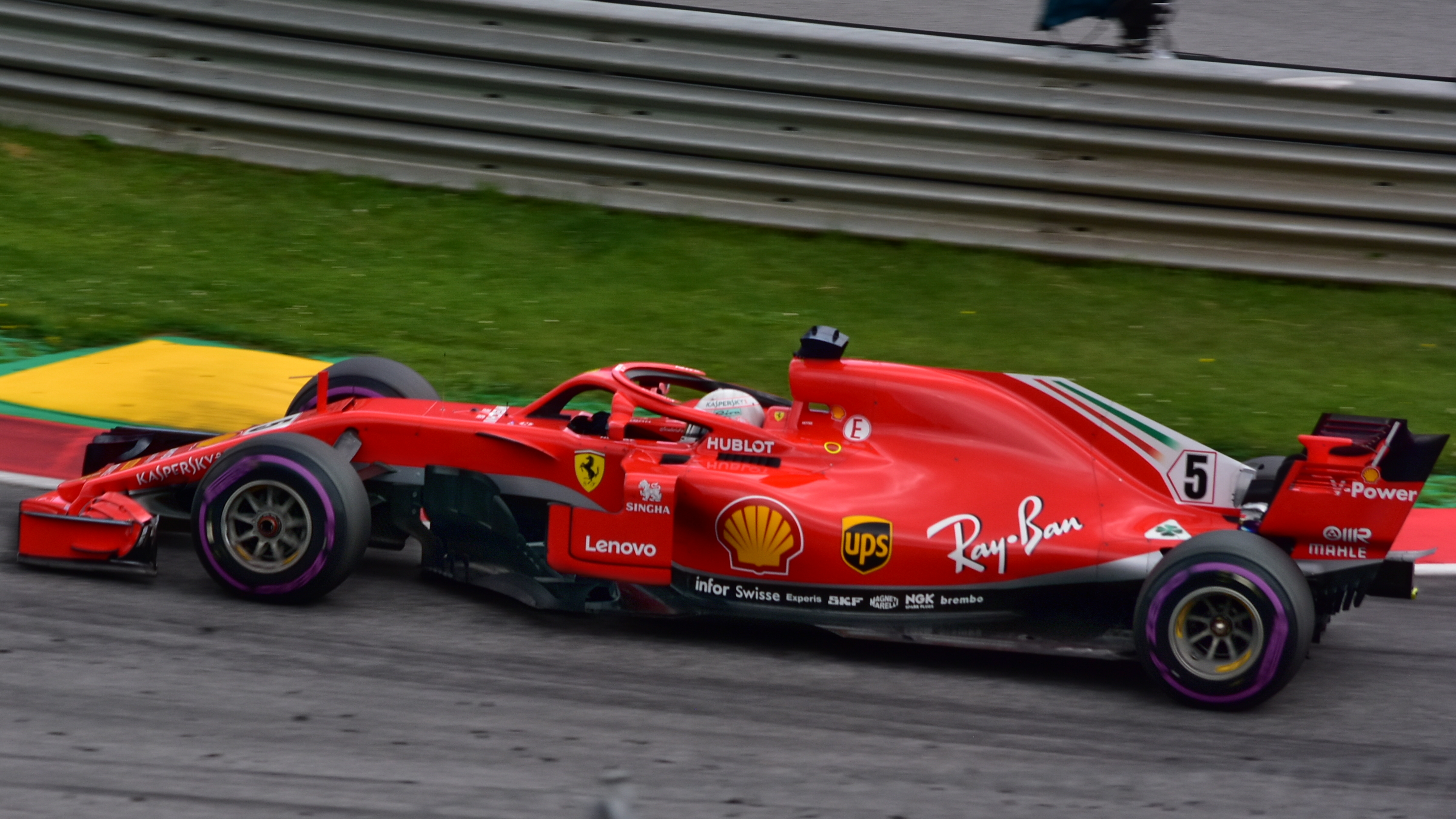 2018 Austrian Grand Prix.